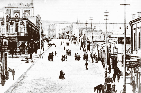 Nikolayevskaya street in Baku (now Istiglaliyyat street)